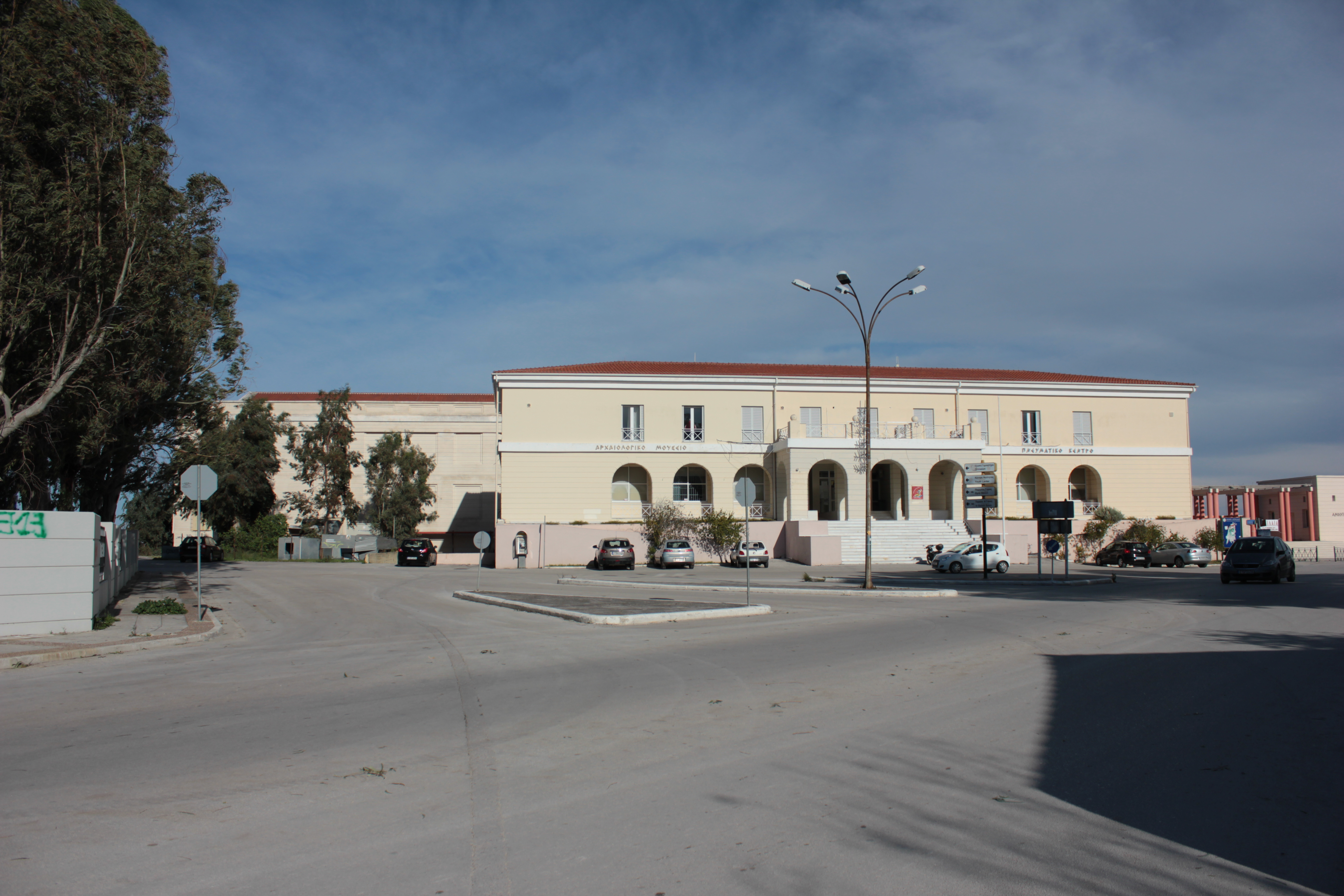 Lefkada Archeological Museum